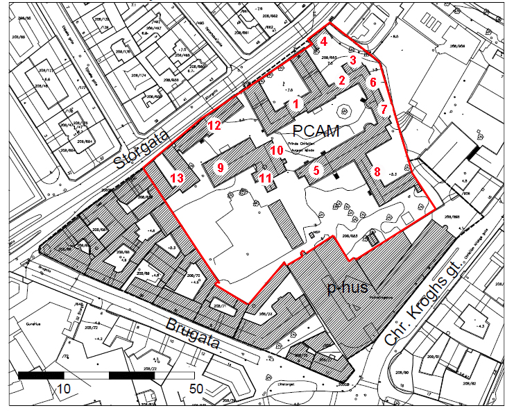 Map of Prins Christian Augusts Minde (a protected cultural heritage area) in Oslo